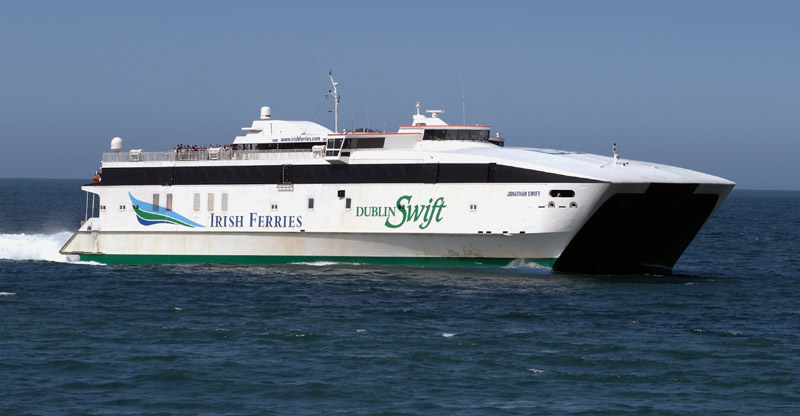 Irish Ferries Jonathan Swift Speeding Through The Irish Sea